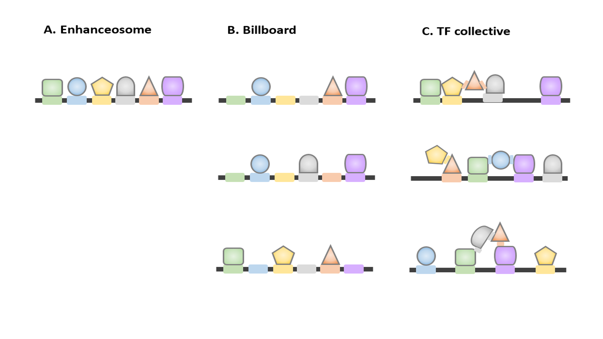 models for TFs binding to enhancers.